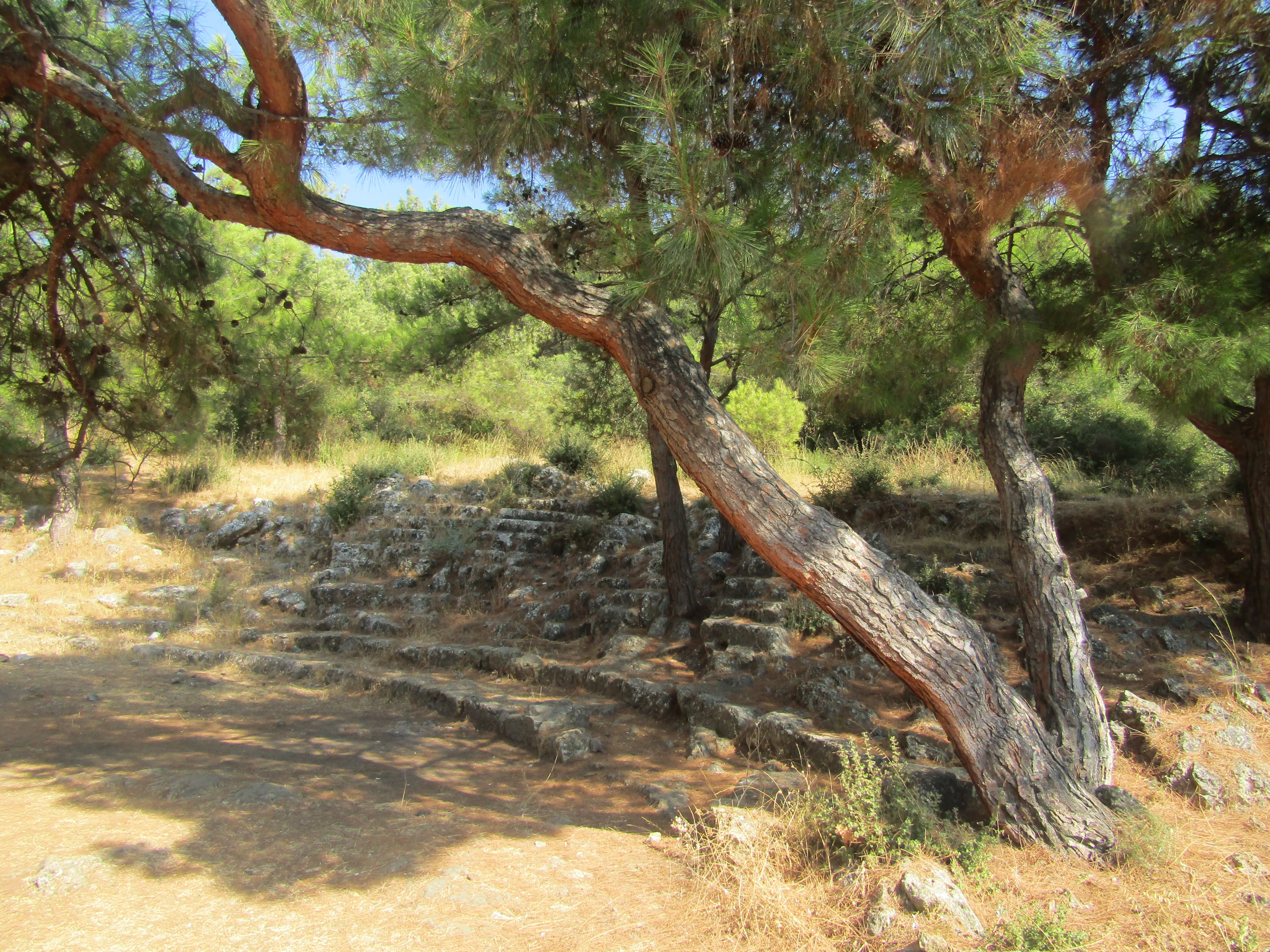 Sanctuary dedicated to Poseidon Helikonios and the meeting place of the Ionian League